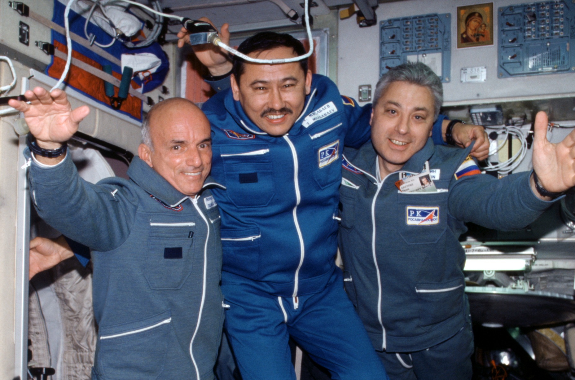 The Soyuz Soyuz TM-32 Taxi Flight crewmembers. Soyuz Commander Talgat Musabayev, Flight Engineer Yury Baturin — both cosmonauts representing Rosaviakosmos — and American Space Flight Participant Dennis Tito blasted off from the Baikonur Cosmodrome in Kazakhstan at 2:37 a.m. CDT (0737 GMT) on April 28, 2001. They docked to the station two days later on April 30, 2001, at 2:58 a.m. CDT (0758 GMT) to begin nearly eight days of docked operations with the Expedition Two crew. The crews transferred gear and equipment from the new Soyuz to the orbital outpost, as well as into the older Soyuz spacecraft in which the visiting crew would return home.